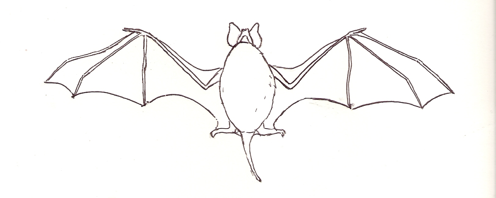 Mormopterus kalinowskii